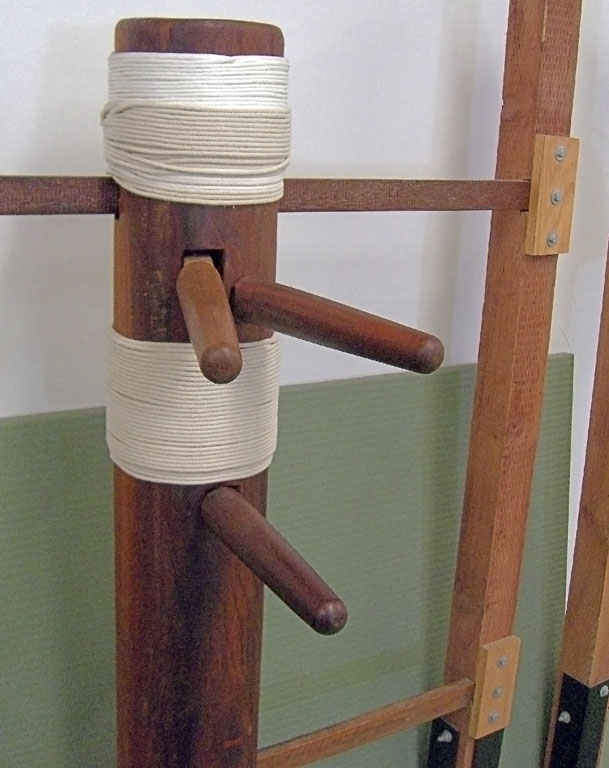 A close-up of the upper portion of a mu ren zhuang, a dummy used in Chinese martial arts training, photographed at a Wing Chun school in California, USA.